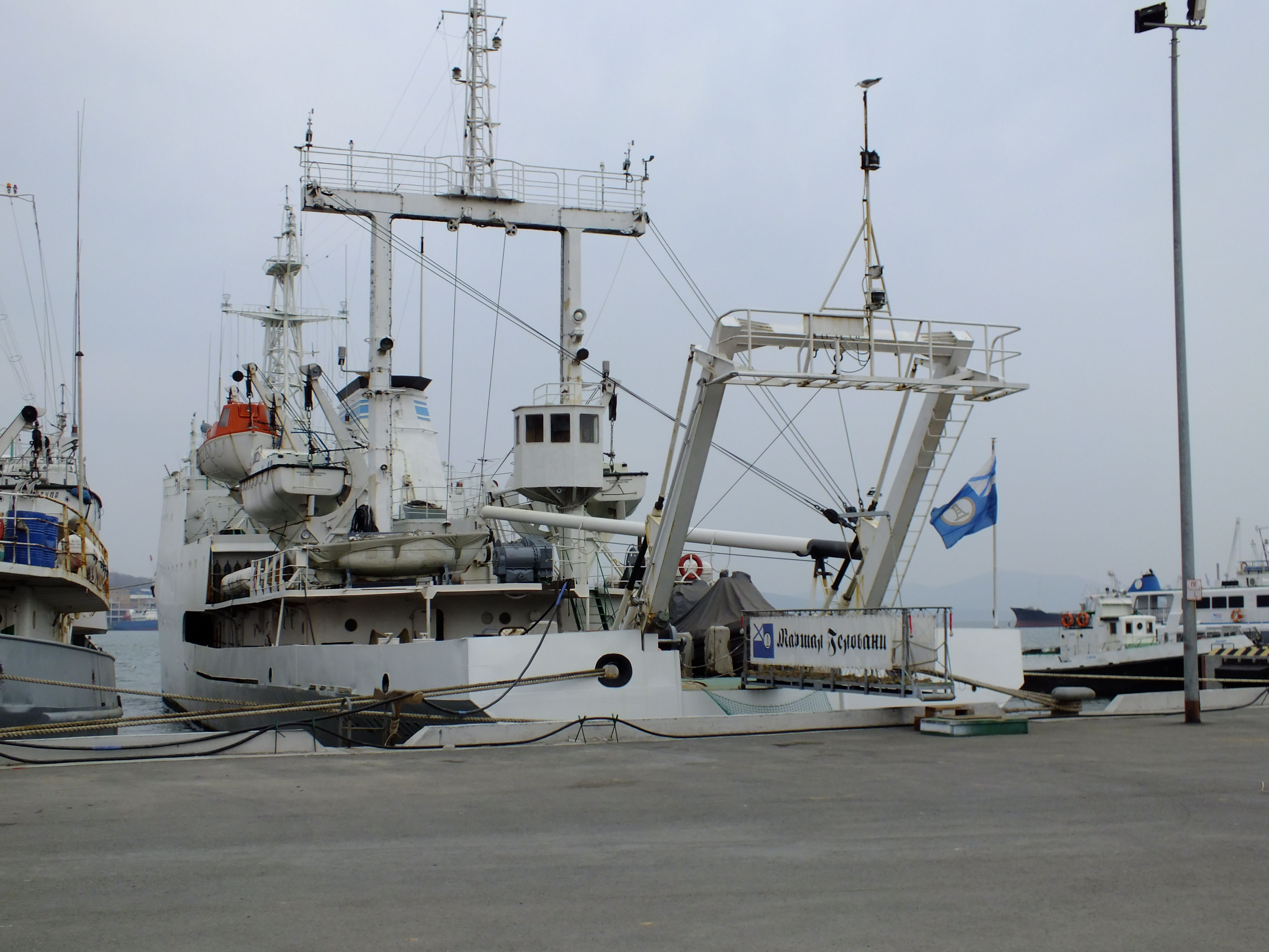 Pacific fleet of Russia